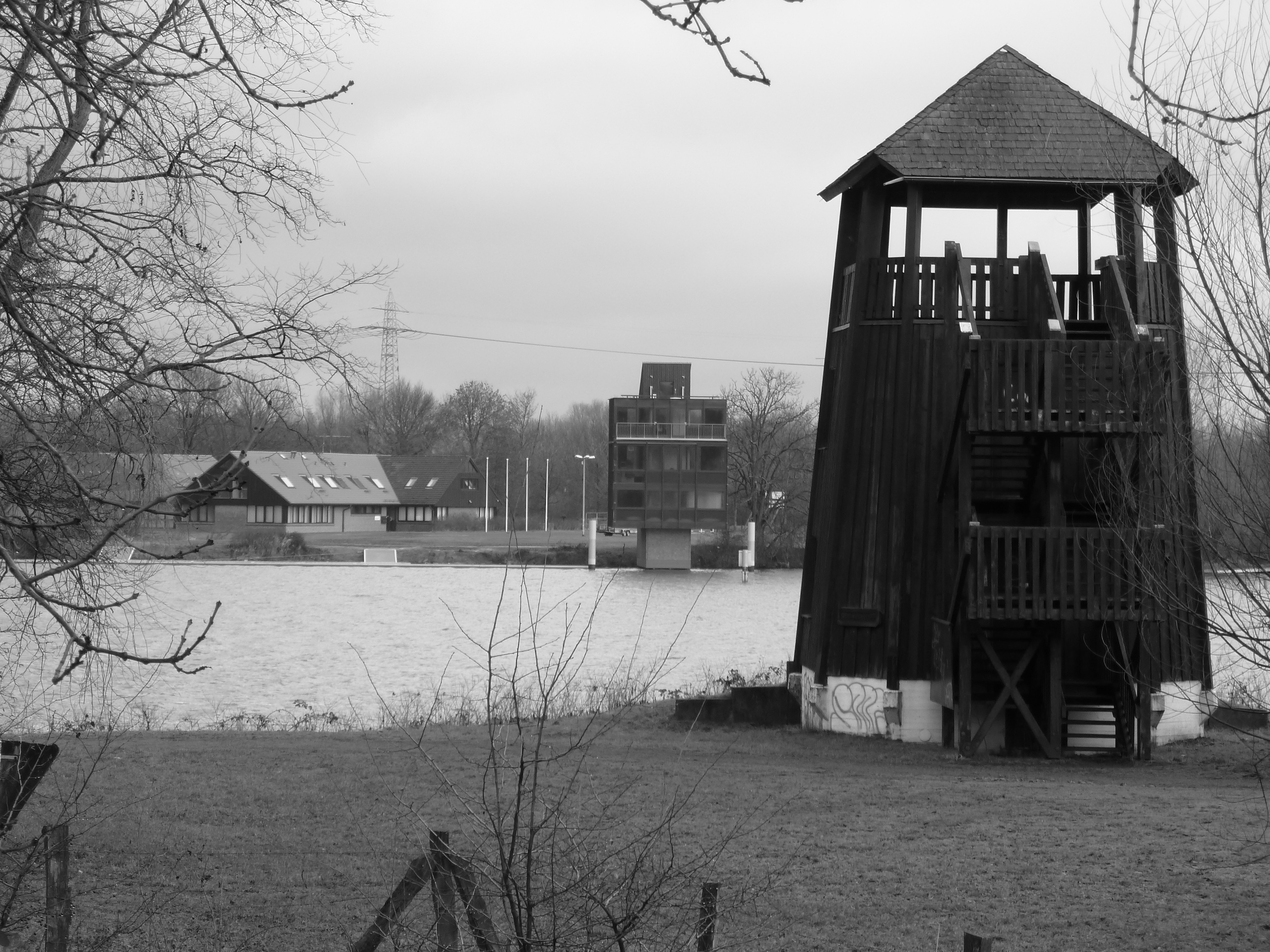 Picture shows the old tower in the front and the new tower (2010) on the other side of the Dove Elbe.